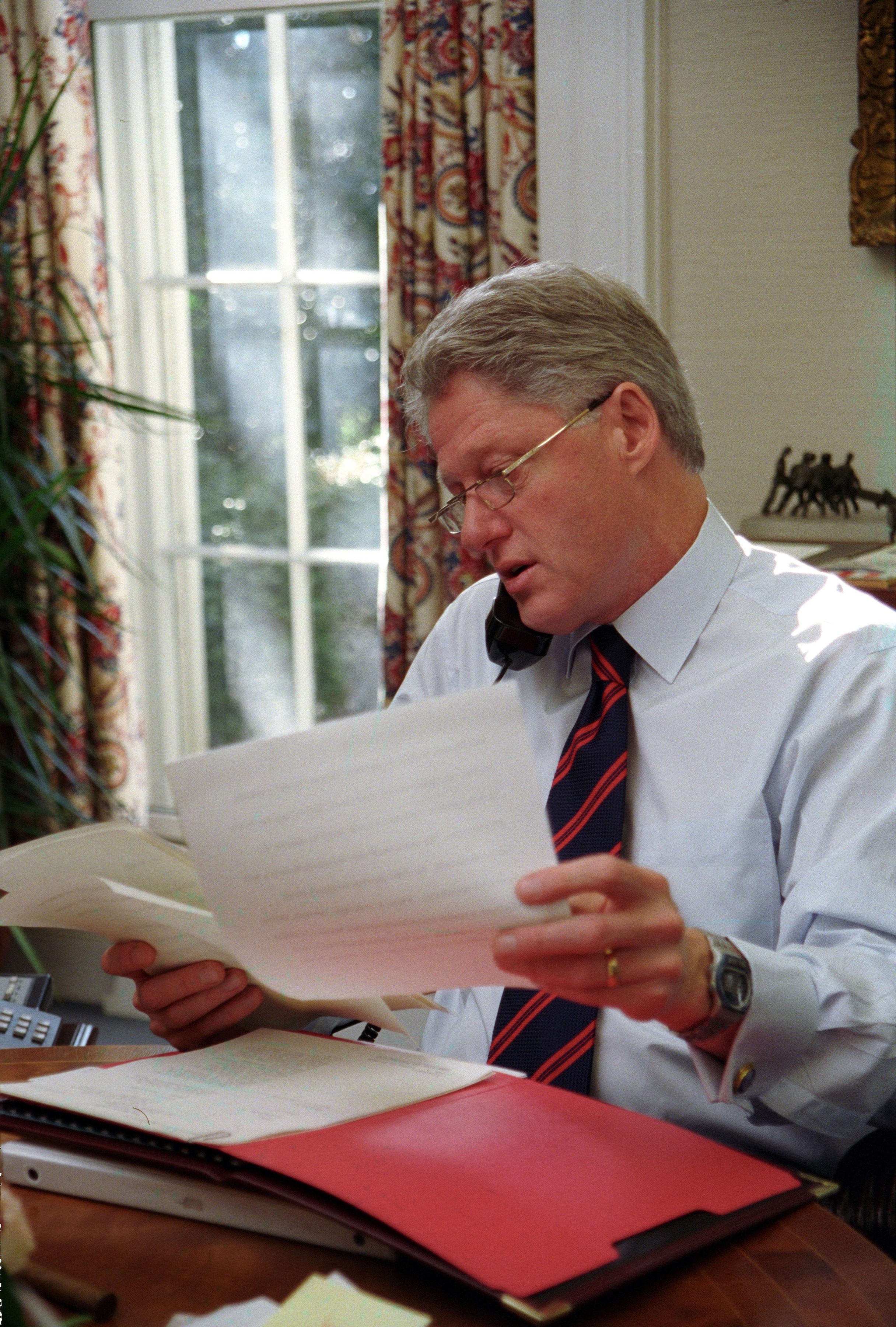 President Bill Clinton talks on the telephone regarding Kosovo in the Oval Office Dining Room.